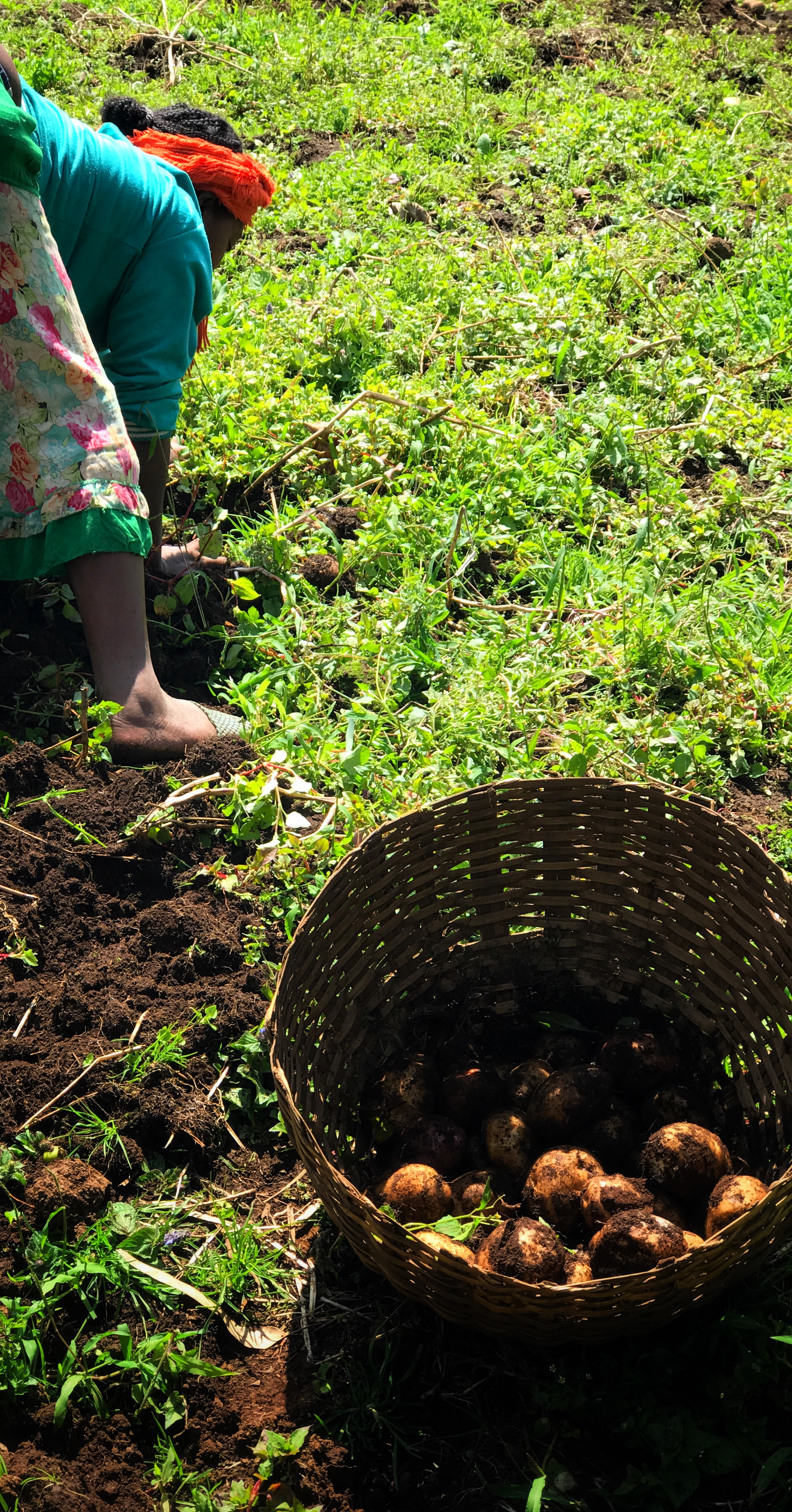 A Gurage teenager picking potatoes on one of the Ethiopian highlands. This is an image of "African people at work" from Ethiopia